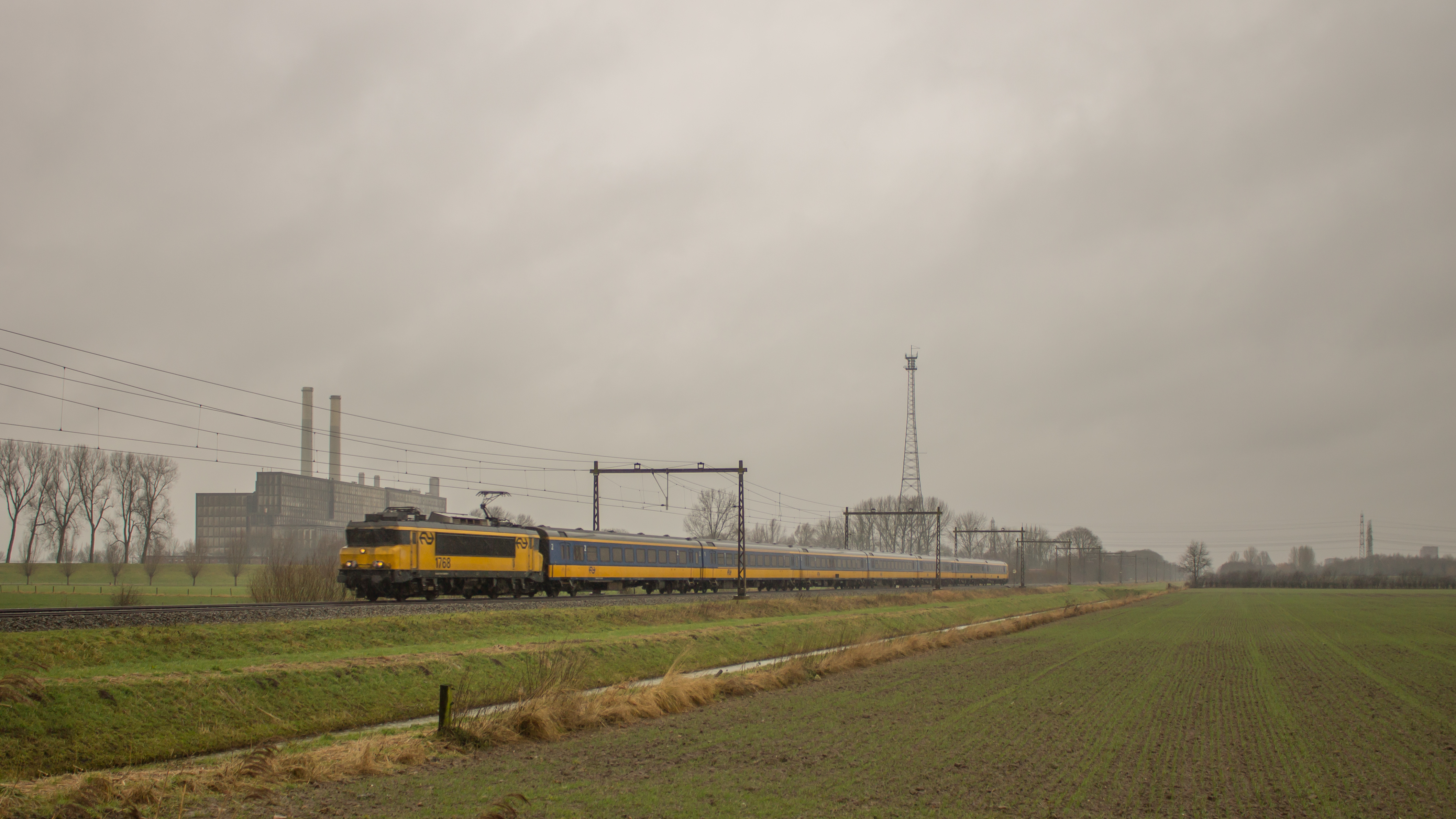 NS E-locomotive 1768 is on its way with the 3649 IC service to Roosendaal. The train just left te station of Zwolle, and passes the Elektrical Plant 'IJsselcentrale'.